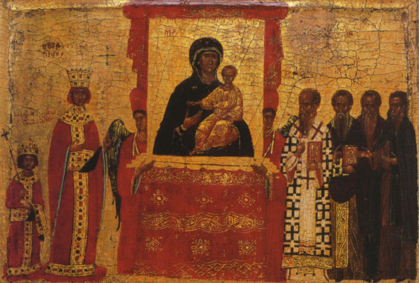 Feast of Orthodoxy (detail of of byzantium icon)